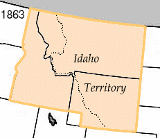 The Idaho Territory in en:1863. © 2004 Matthew Trump Idaho territory in 1863